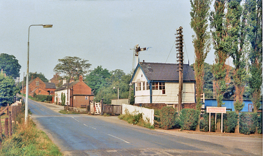 Level crossing over Stoke - Derby line at site of Cresswell station. View NE: North Stafford Railway Stoke (left) - Derby (right) main line, junction of branch to Cheadle. The station was on the right, but was closed from 7/11/66.